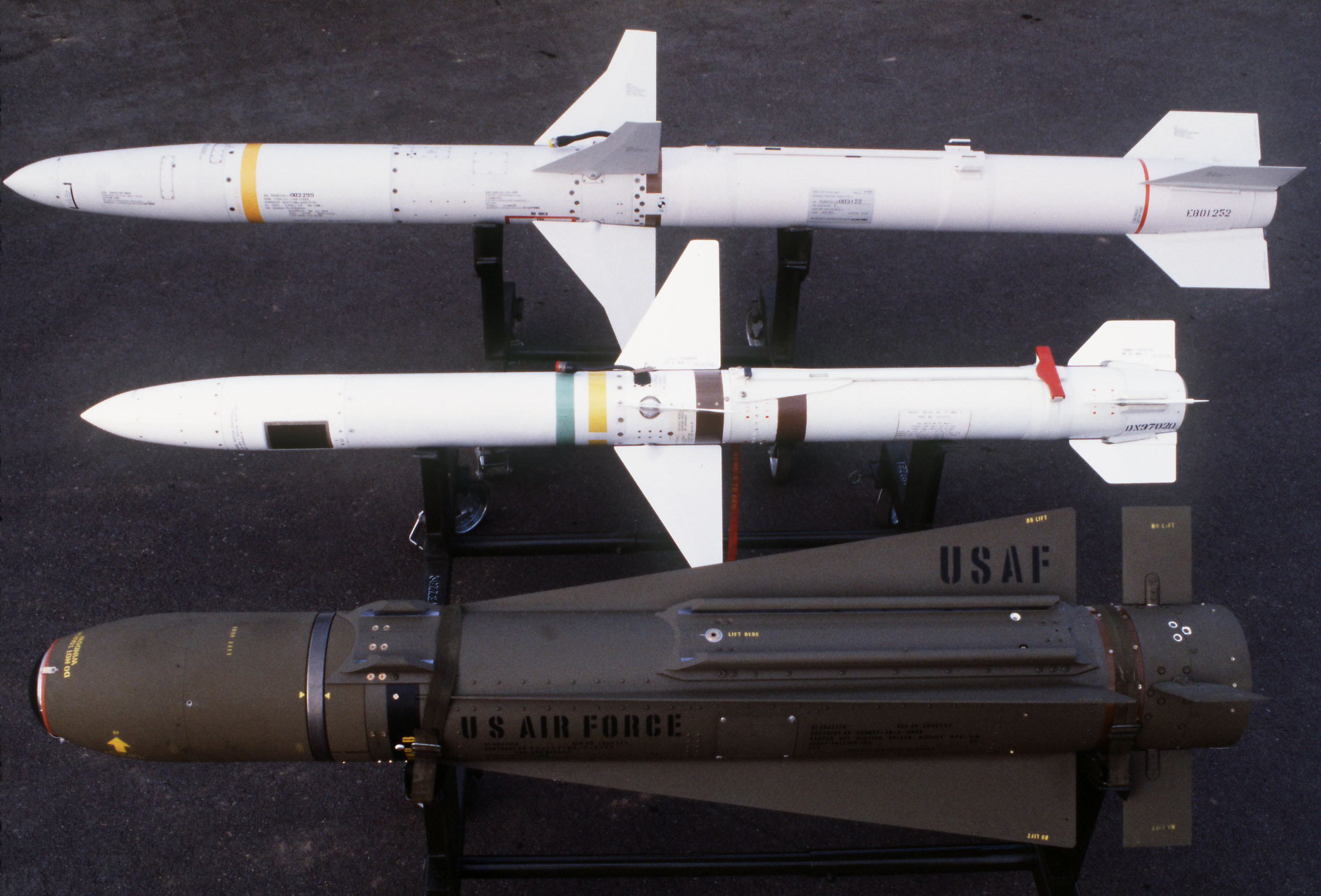 A view of, from top to bottom, an AGM-88 HARM high-speed anti-radiation missile, an AGM-45 Shrike anti-radiation missile and an AGM-65 Maverick F IR-guided missile. Location: GEORGE AIR FORCE BASE, CALIFORNIA (CA) UNITED STATES OF AMERICA (USA)